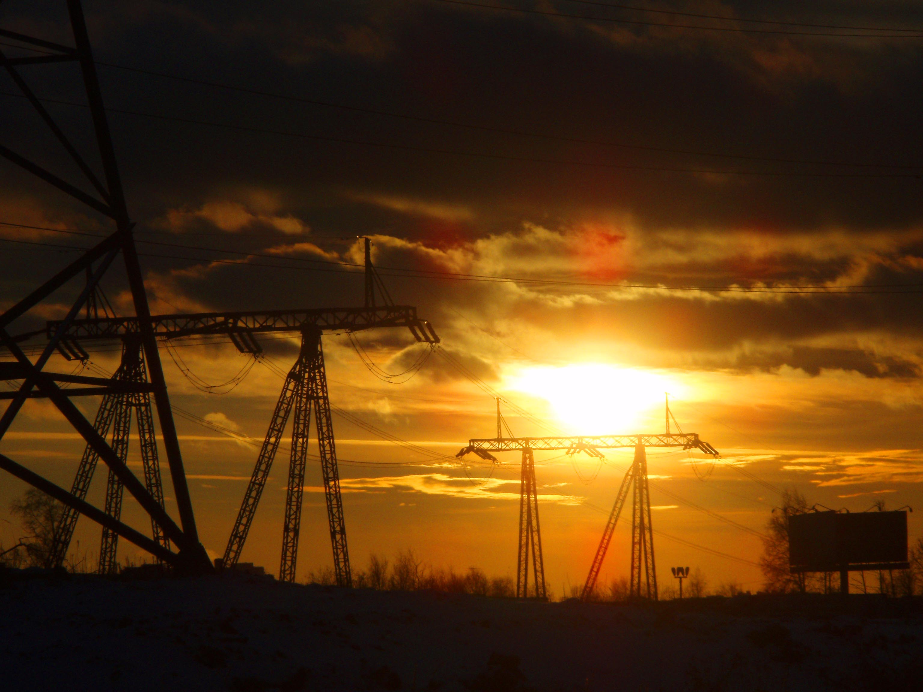 500 kV AC power line in December sunset; Moscow Oblast, Russia